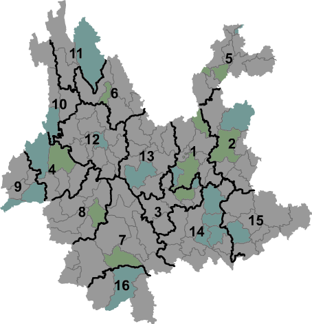 Map of prefectures of Yunnan Province